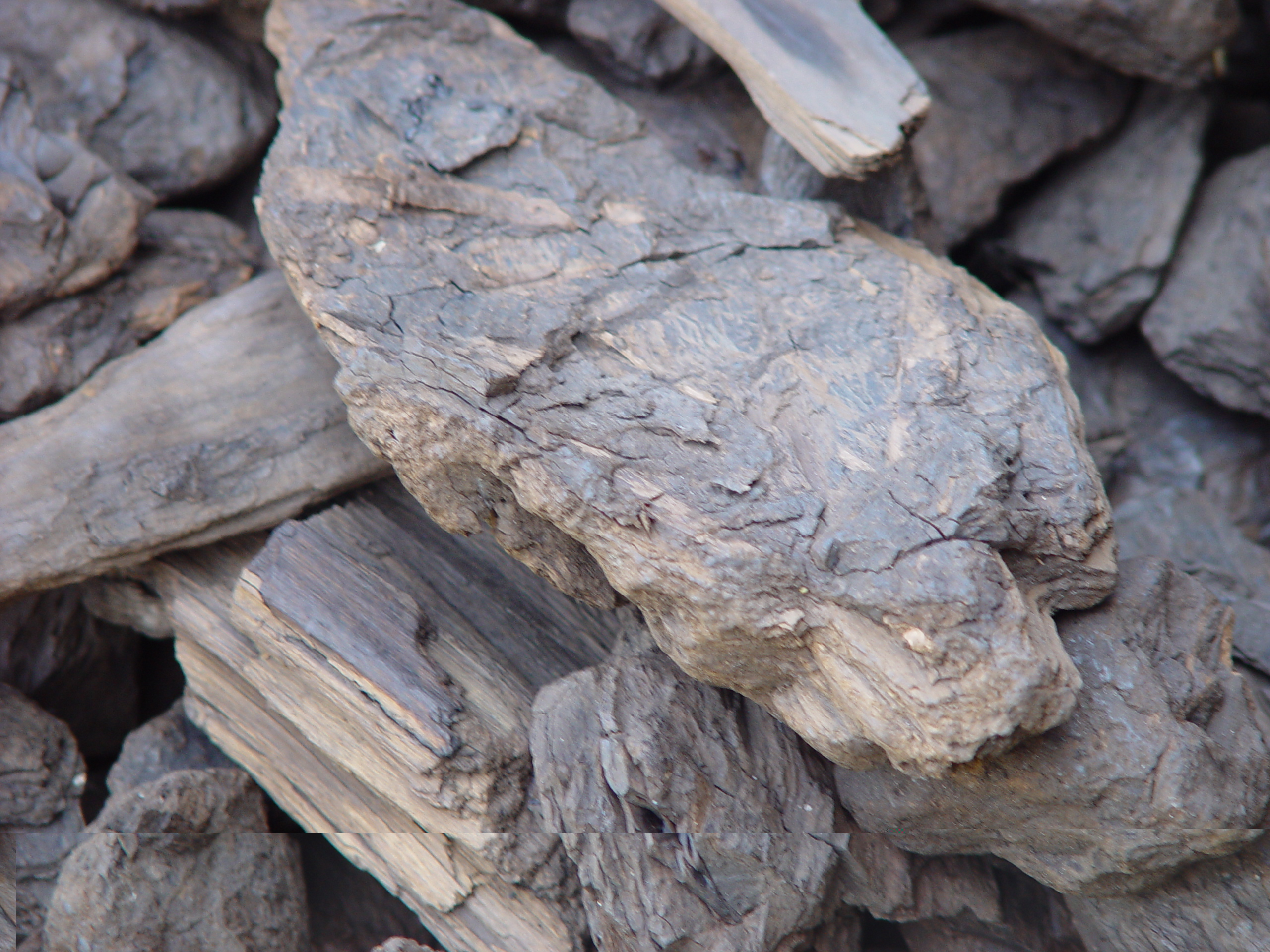 Pliocene lignite coal from a village in Serbia affected by Balkan endemic nephropathy (BEN). Lignite is low rank, or relatively unaltered (soft, or "brown") coal characterized by a brownish color and appearance that often resembles wood. This lignite releases copious amounts of dissolved organic substances into groundwater.